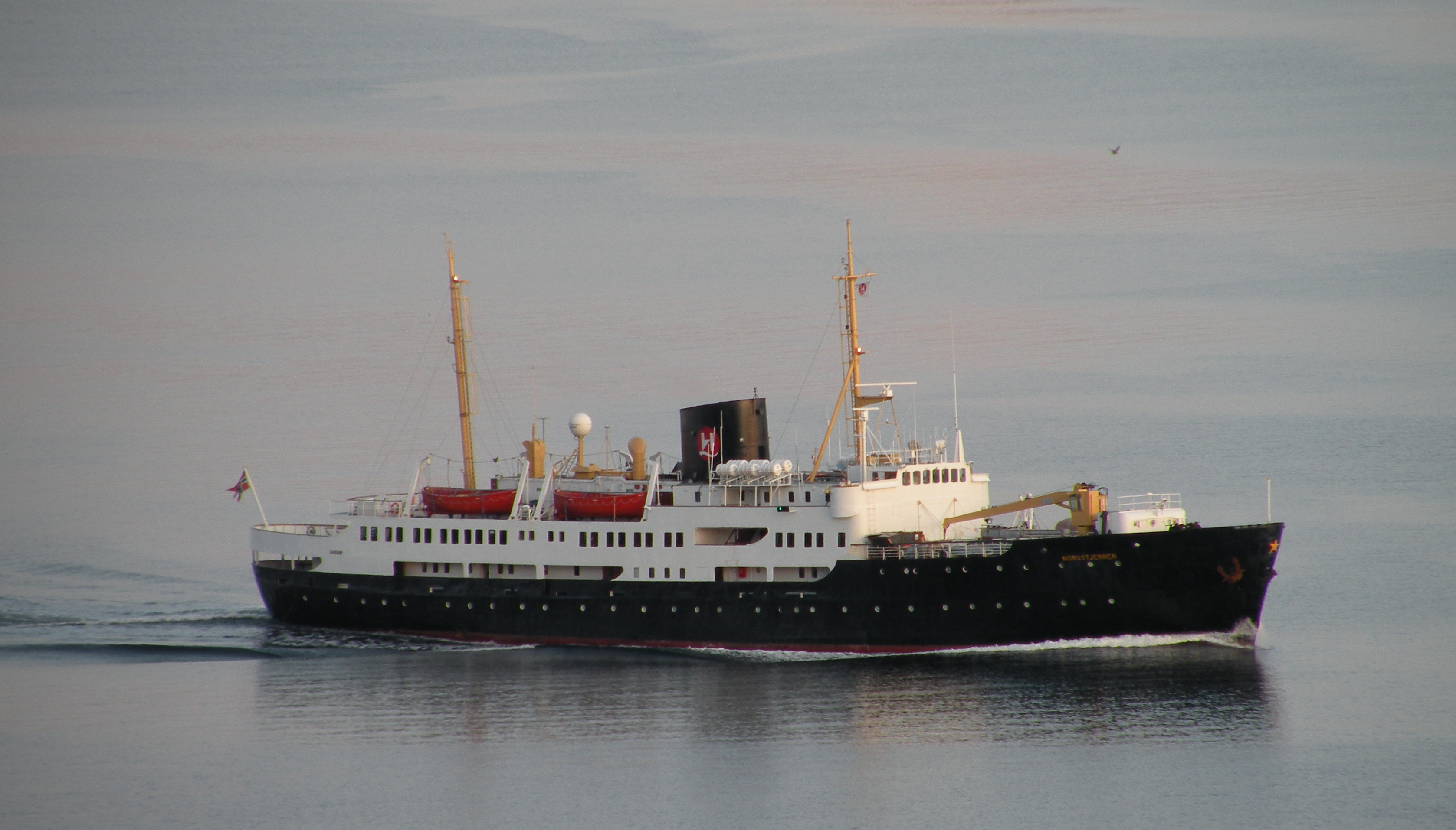 Norwegian coastal express ship (Hurtigruten) MS Nordstjernen.